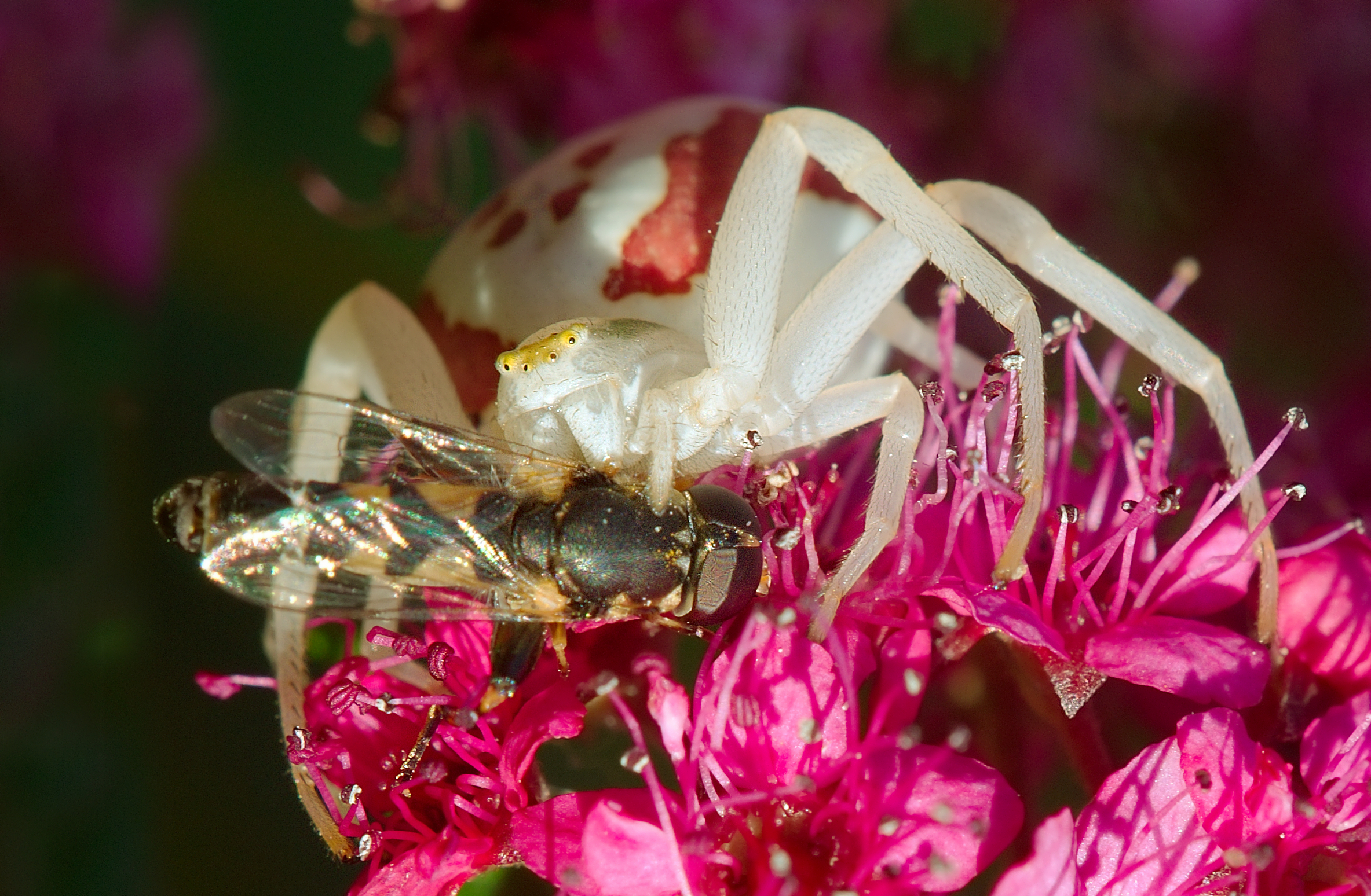 Female goldenrod crab spider (Misumena vatia) with Syrphidae